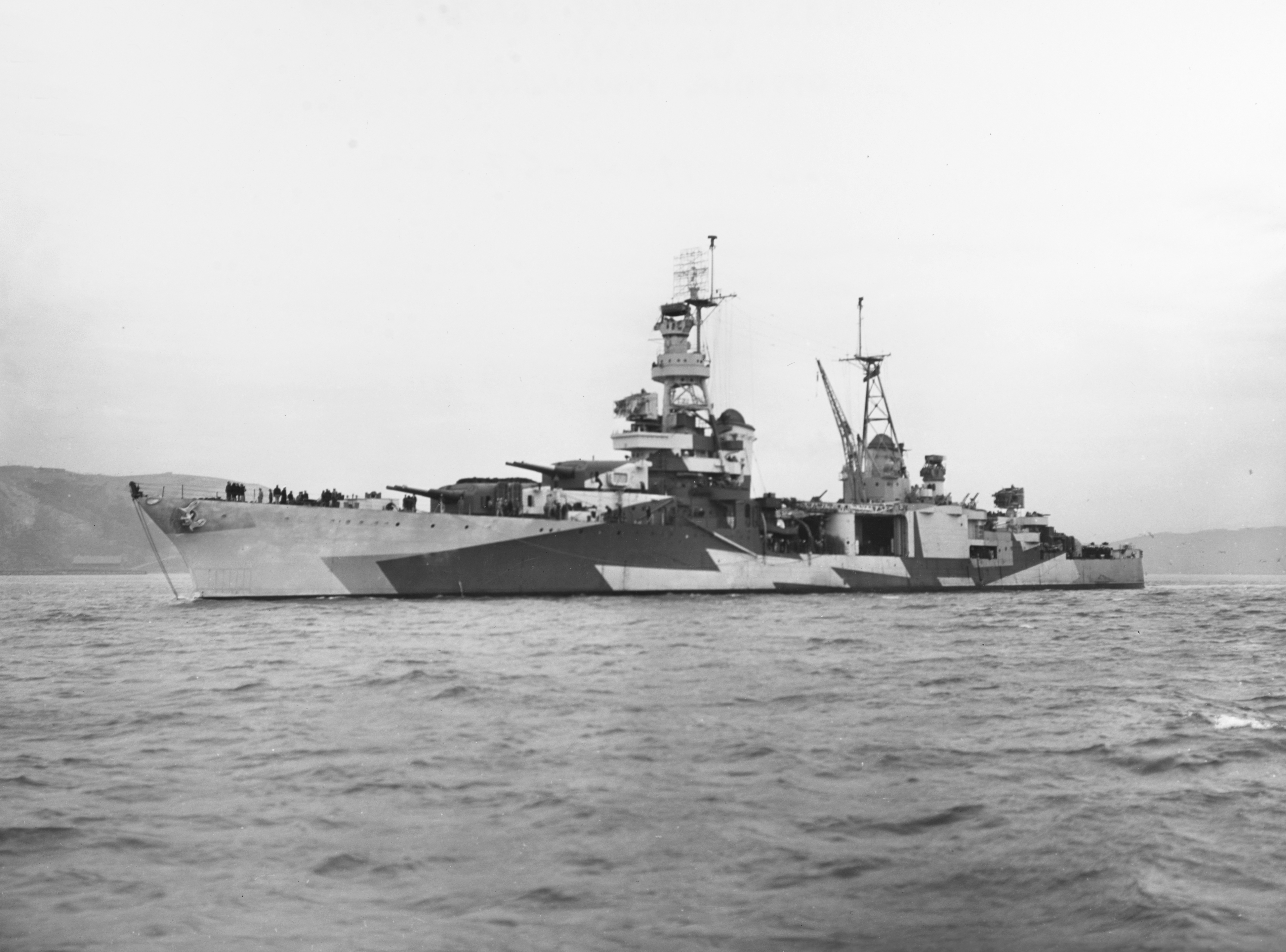 The U.S. Navy heavy cruiser USS Louisville (CA-28) off the Mare Island Naval Shipyard, California (USA), on 17 December 1943. The ship's camouflage scheme is probably Measure 32, Design 6d. Note that no hull number was painted on the bow.